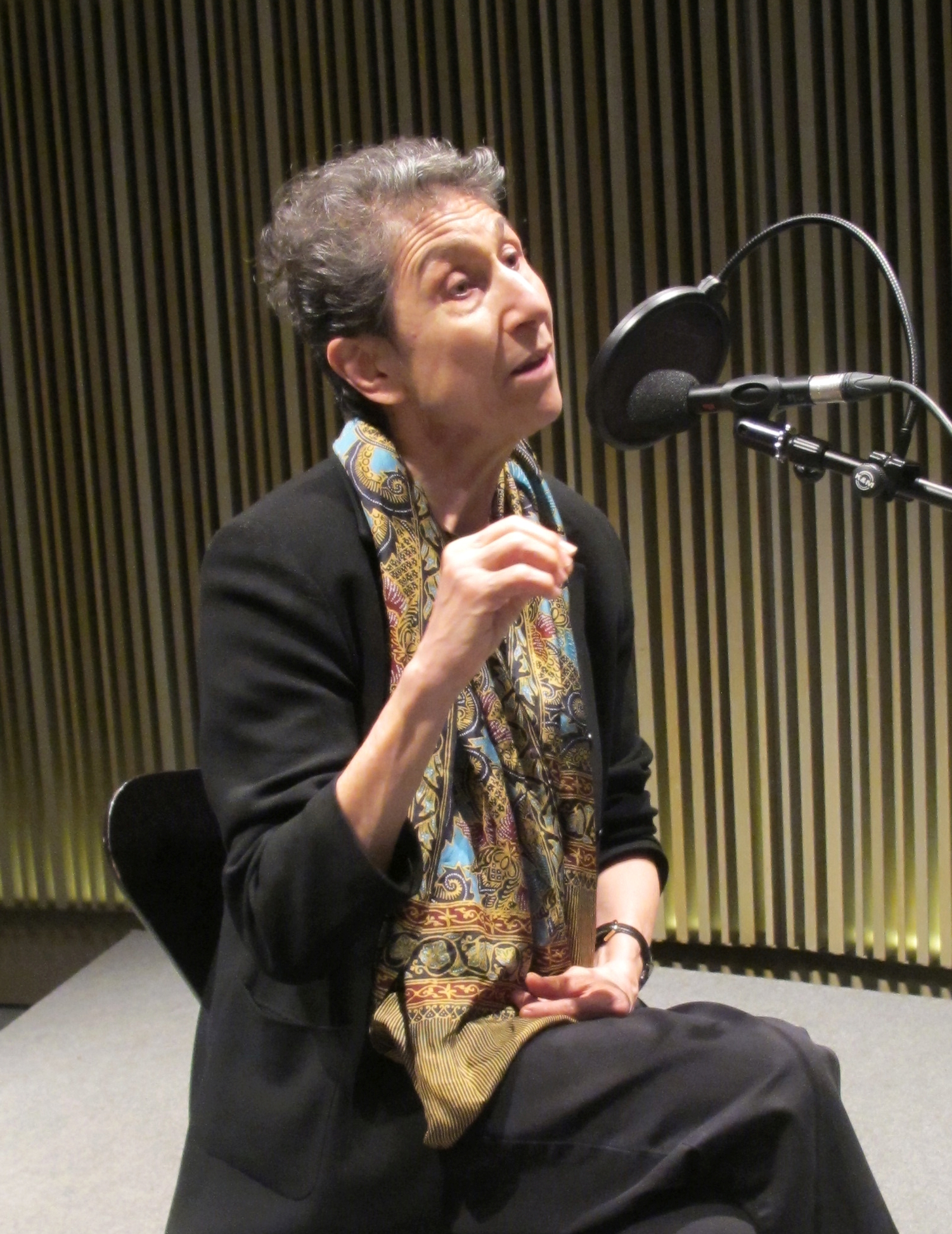 Silvia Federici giving a speech at MACBA museum in Barcelona